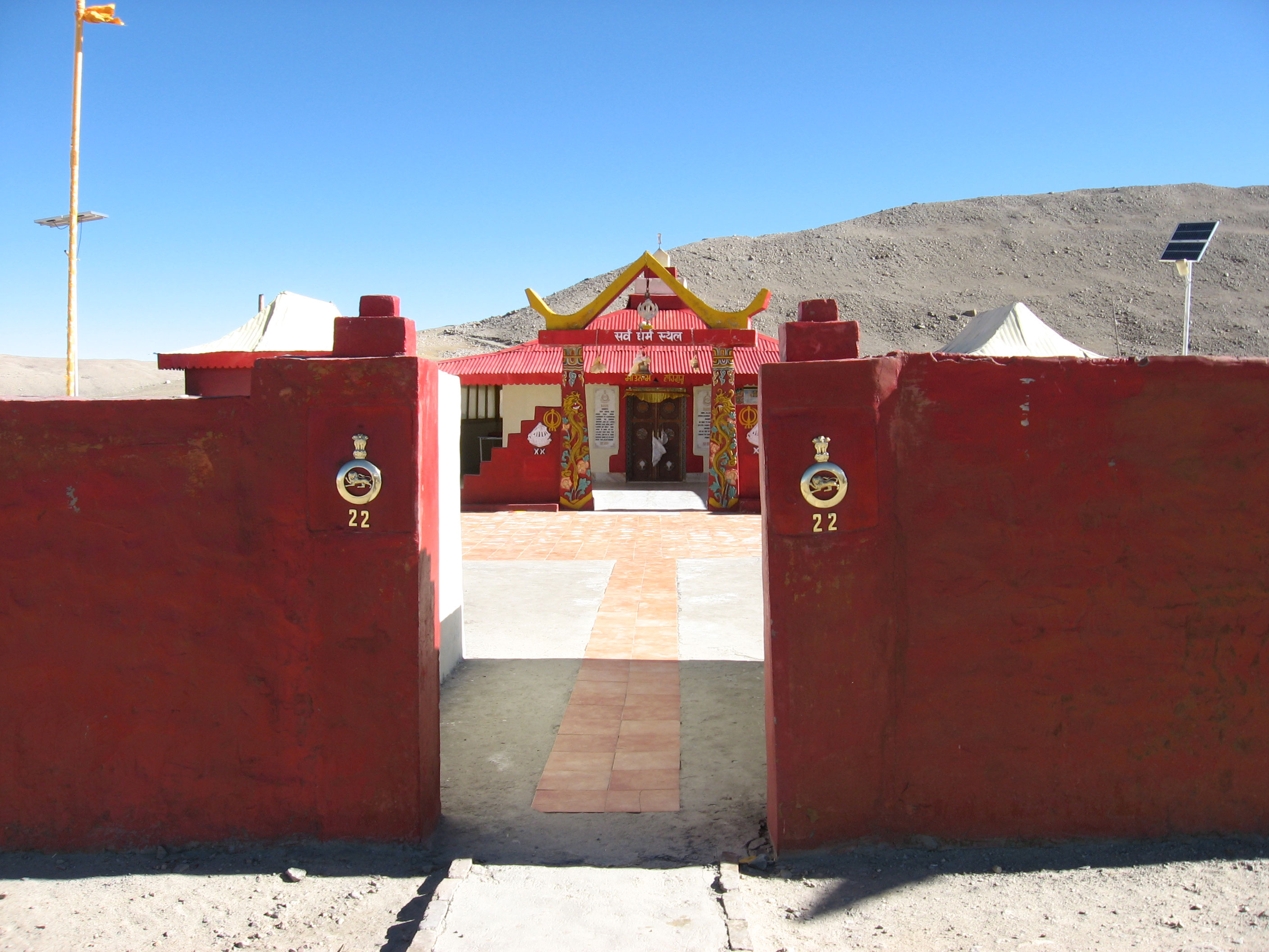 Sarv Dharm Sthal near Gurudongmar Lake